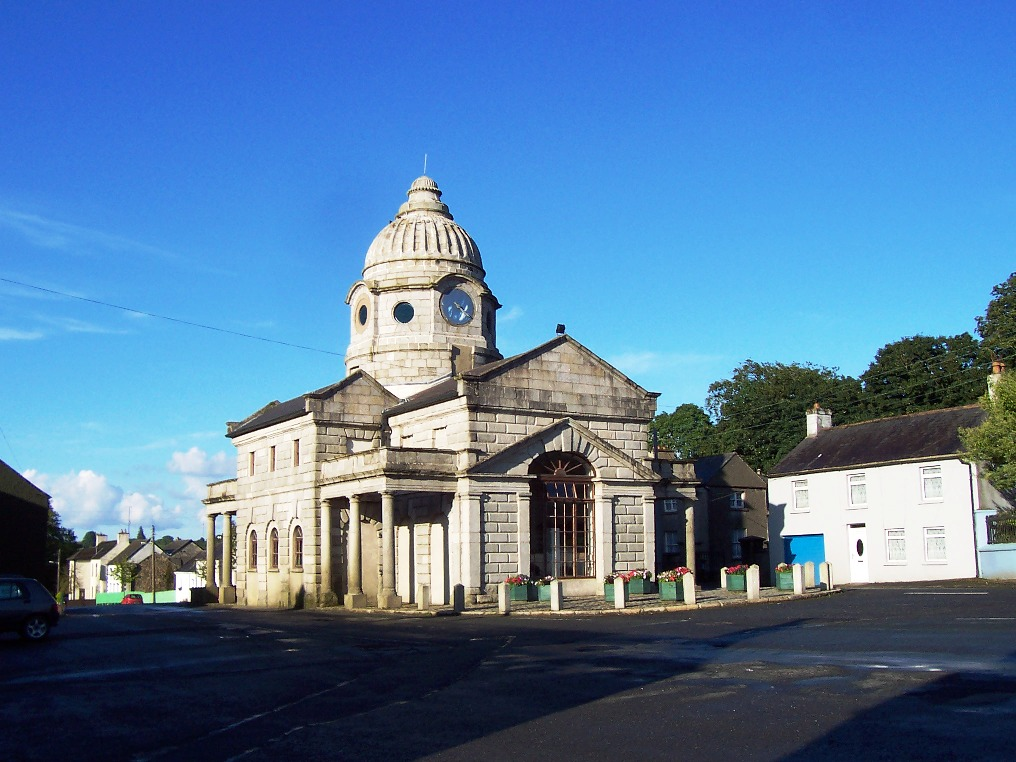 The Market House in the center of Dunlavin, Wicklow County, Ireland. Taken July 19, 2007. Mfriese32 04:38, 13 October 2007 (UTC)